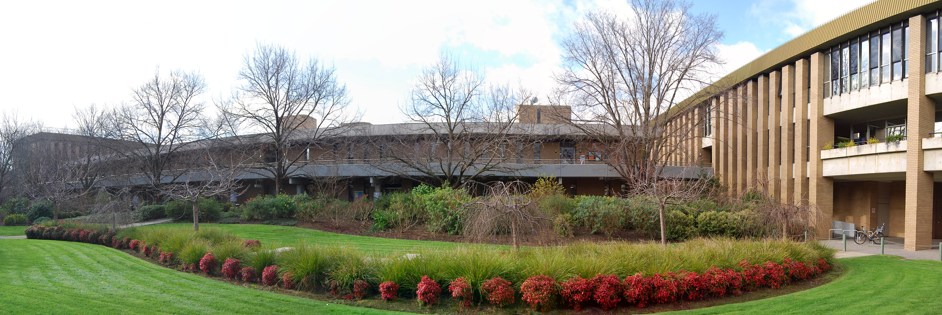 David Myers Building Panorama